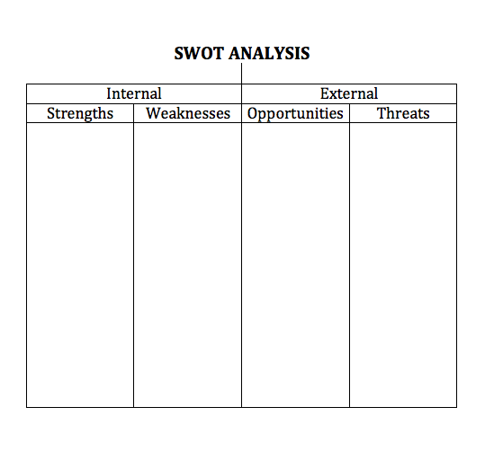 swot analysis simply